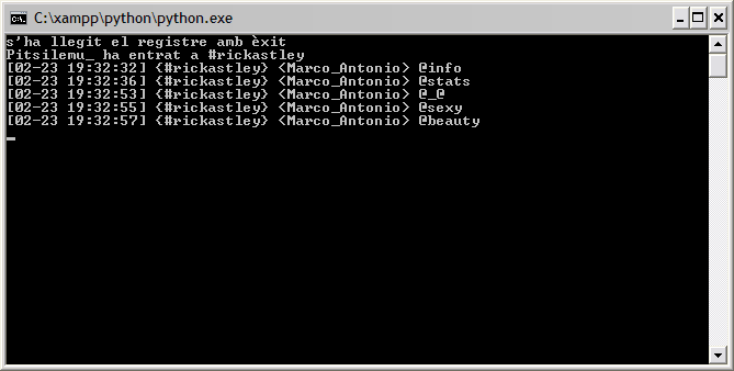 Pitsilemu working on Microsoft Windows XP command line.